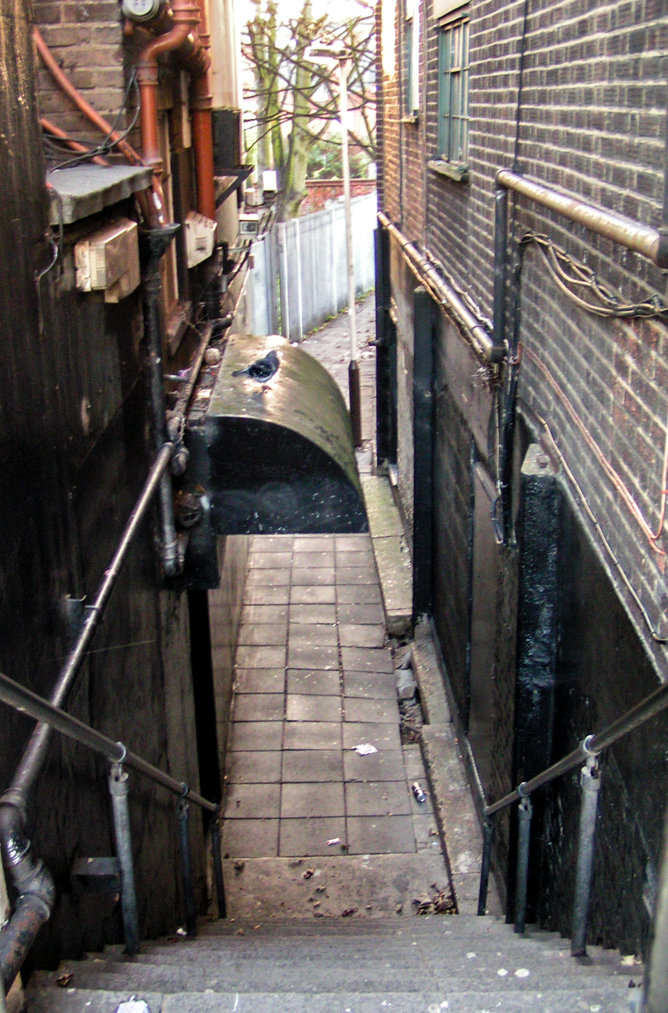 Founded by Alexis Korner & Cyril Davies, the Ealing Club at 42A The Broadway, Ealing, London W5 2NP is widely regarded as the cradle of blues-based rock music because of the scene that developed there during 1962-65. Situated in a basement opposite Ealing Broadway station, it was reached by descending the narrow steps of Haven Place, between what at the time was an ABC tearoom and a jewellery shop. The Club is where Mick Jagger & Keith Richards met Brian Jones and is where subsequently, subsequently on Tuesday 15 January 1963 the classic line-up of the Rolling Stones played their first public gig. Another notable event took place at the Ealing Club one Sunday night in 1963 - the first live performance ever to use the classic ‘loud’ Marshall JTM45 guitar amplifier. The band assembled to test the pre-production amp included future Jimi Hendrix Experience drummer Mitch Mitchell — who worked in the Marshall shop in Hanwell, and saxophonist Terry Marshall, the ‘T’ in ‘JTM’.